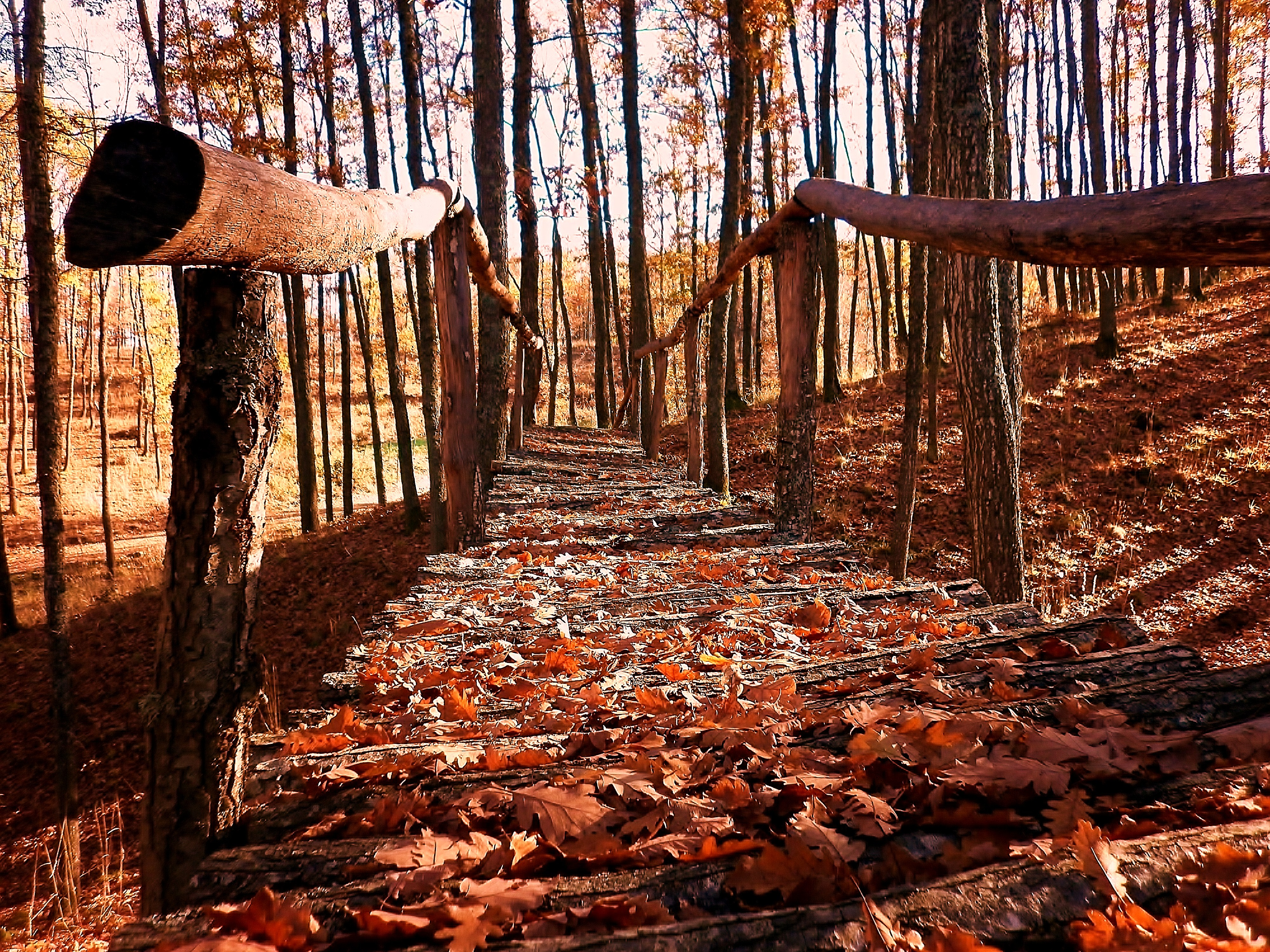 Old bridge in village Stanisor, Gjilan-Kosova